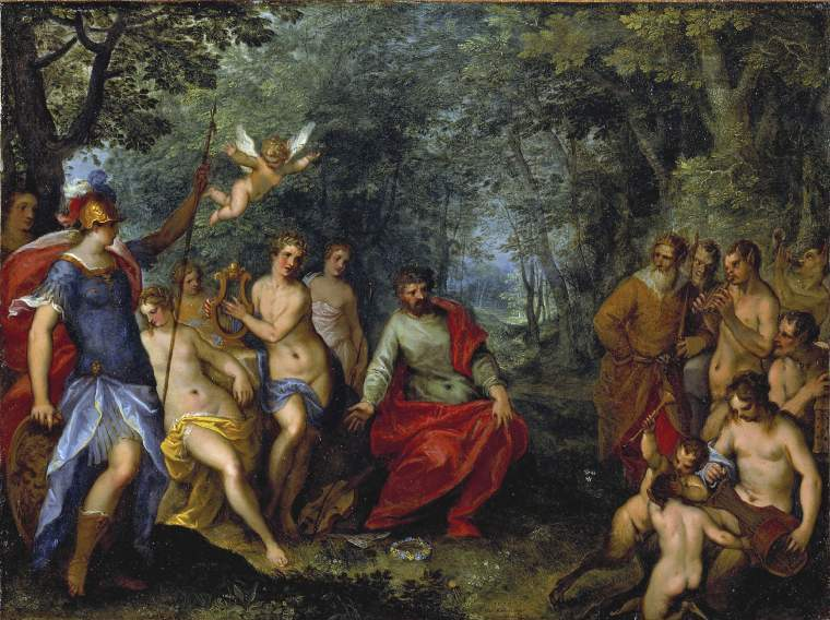 Hans Rottenhamer: The contest of Apollo and Pan